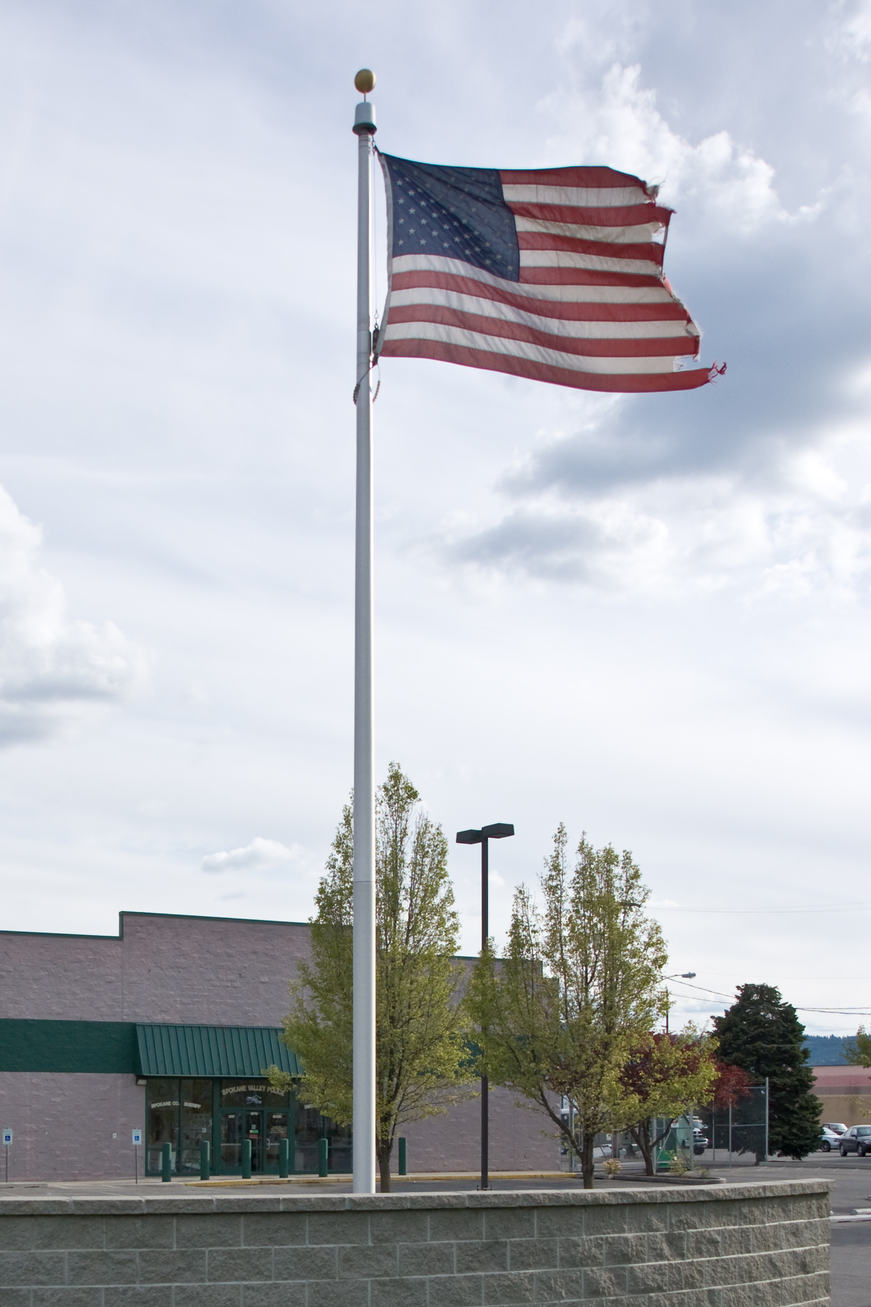 Tattered Flag flown in front of the Spokane Valley Police (Branch of Spokane County Sheriff's Office